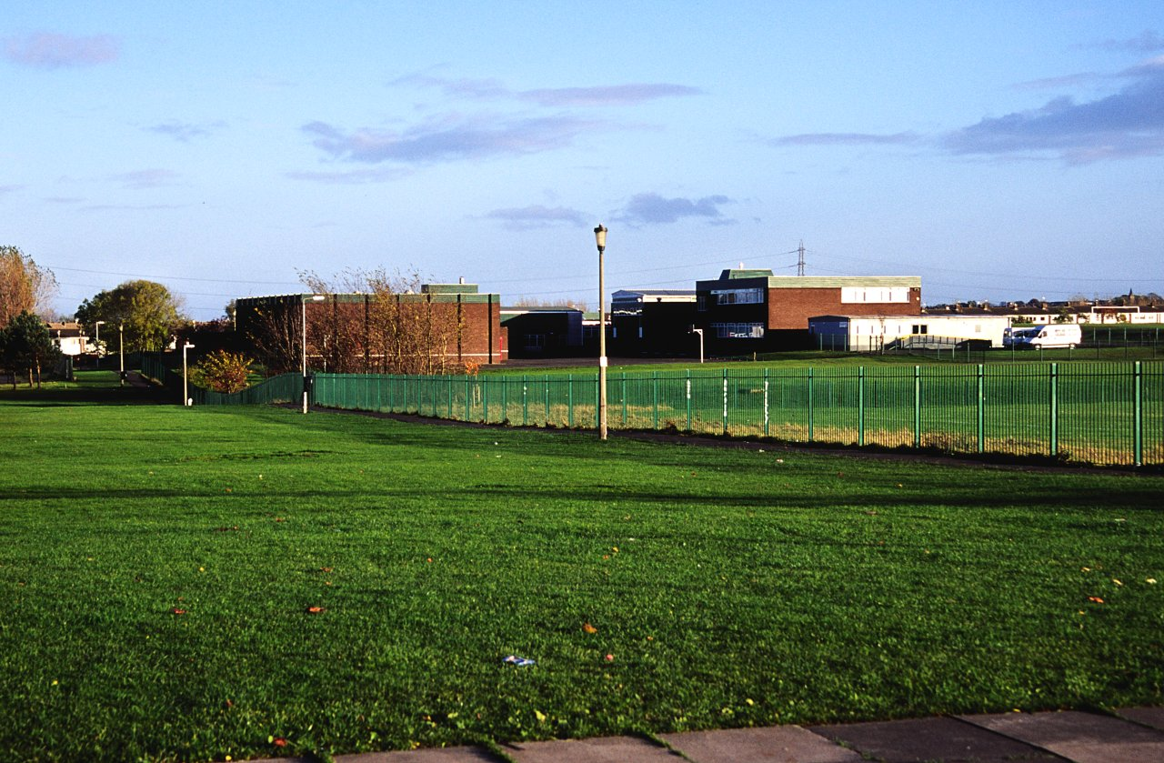 Hedworthfield Comprehensive School, taken one weekend in November 2002 by me. —Christine 16:04, 30 July 2006 (UTC) Left - right: Sports hall (windowless brick building), school hall (in background), humanities & library, music & drama studio (in shadow), new classroom block (brick building with windows) containing home economics facilities on ground floor, mathematics and computing on 1st floor (as of 1984!) Science labs, arts & crafts and community centre are behind the school hall.